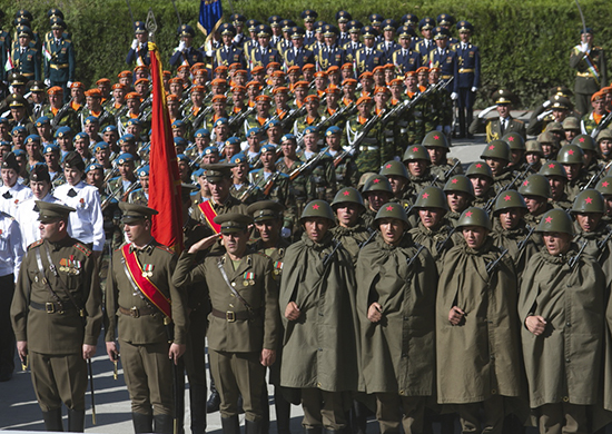 Военнослужащие 201-й российской военной базы, дислоцированной в Республике Таджикистан, приняли участие в параде, посвященного 72-й годовщине Победы в Великой Отечественной войне, который прошел в центре Душанбе.